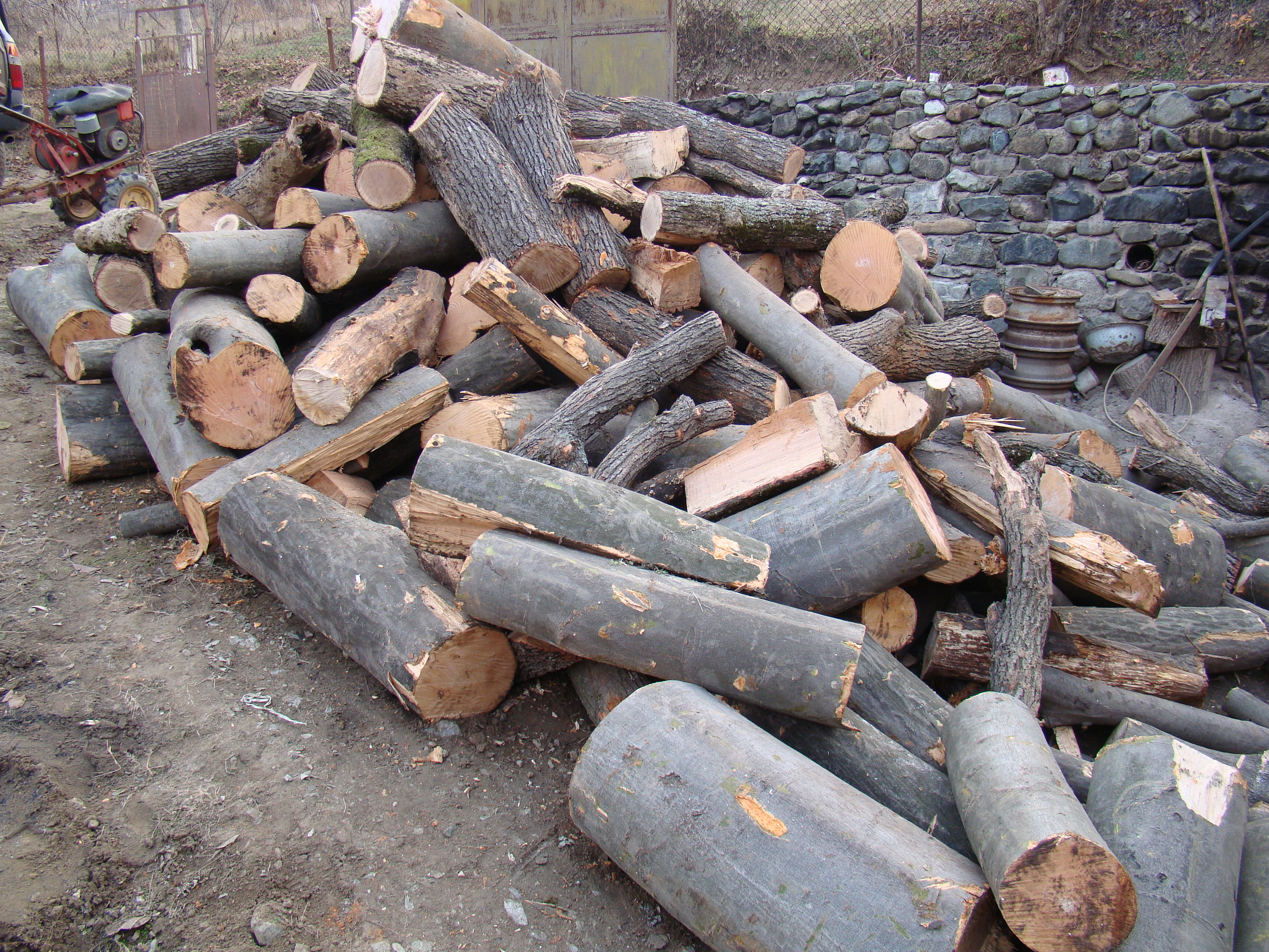 Deforestation of an old growth forest in Armenia's northern Lori province, to make way for the Teghut Copper-Molybdenum Mine.